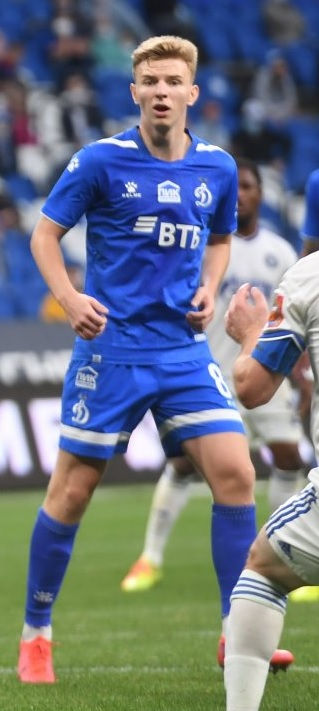 Igor Shkolik with FC Dynamo Moscow in a game against FC Orenburg.